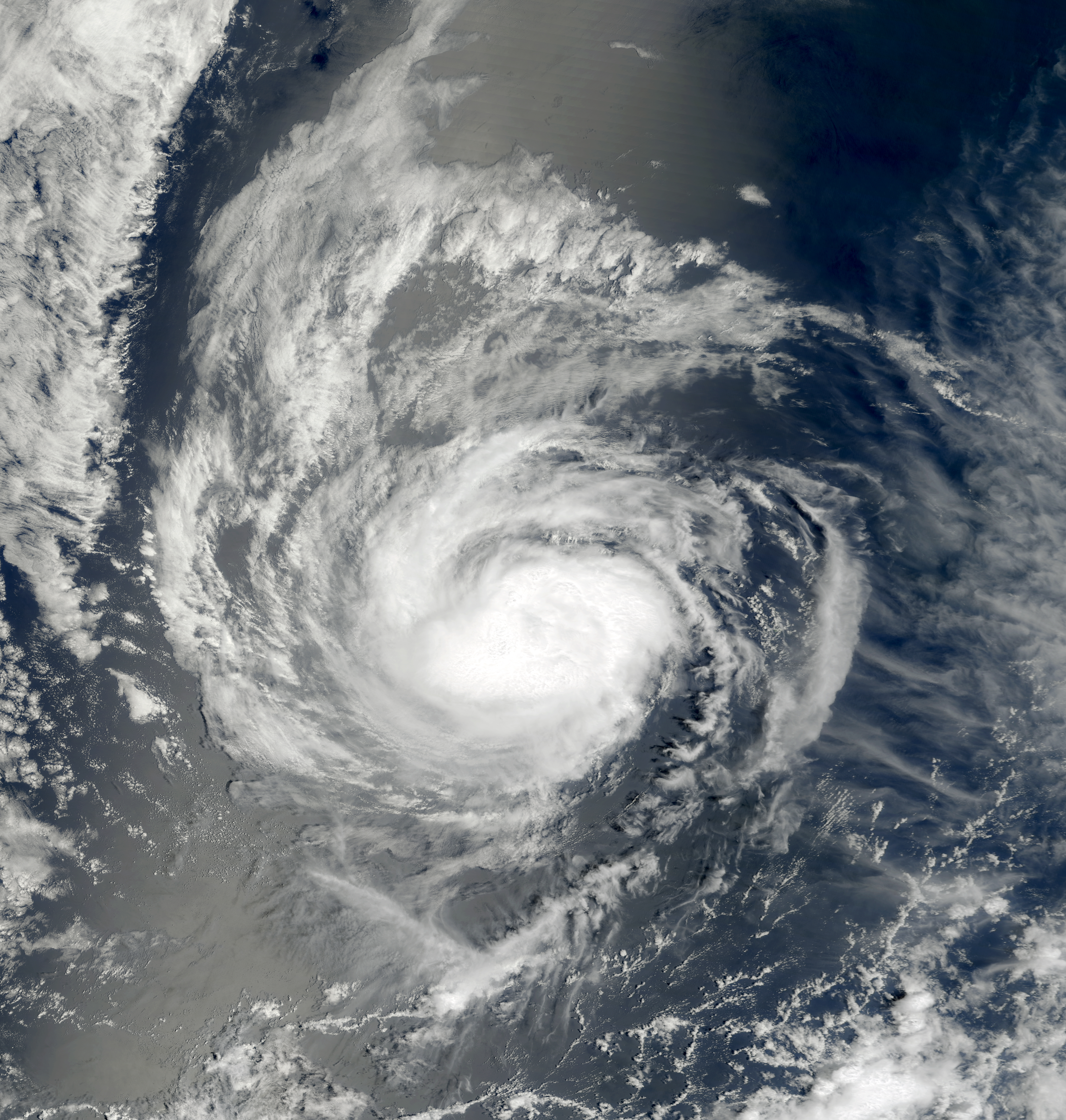 This image of Hurricane Kristy was captured by the MODIS instrument on NASA's Terra satellite at 1843 UTC on August 31, 2006 when it was located in the eastern Pacific Ocean. At the time, maximum sustained winds were 75 mph and the minimum pressure was approximately 987 mb.